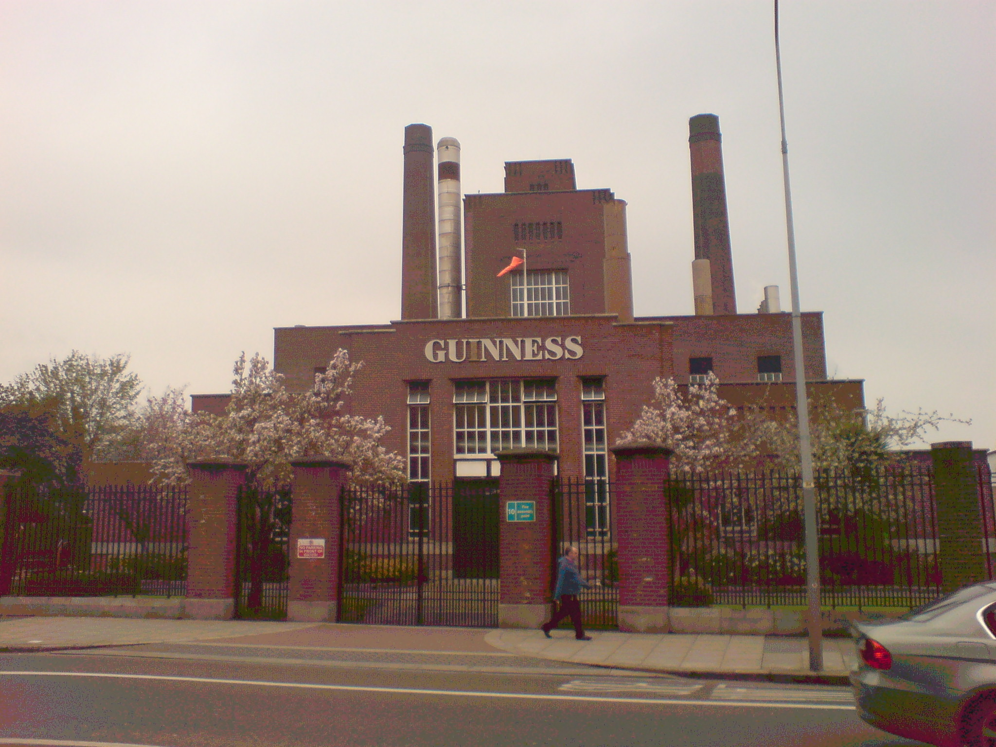 Part of the Guinness Brewery Complex in Dublin, ROI.